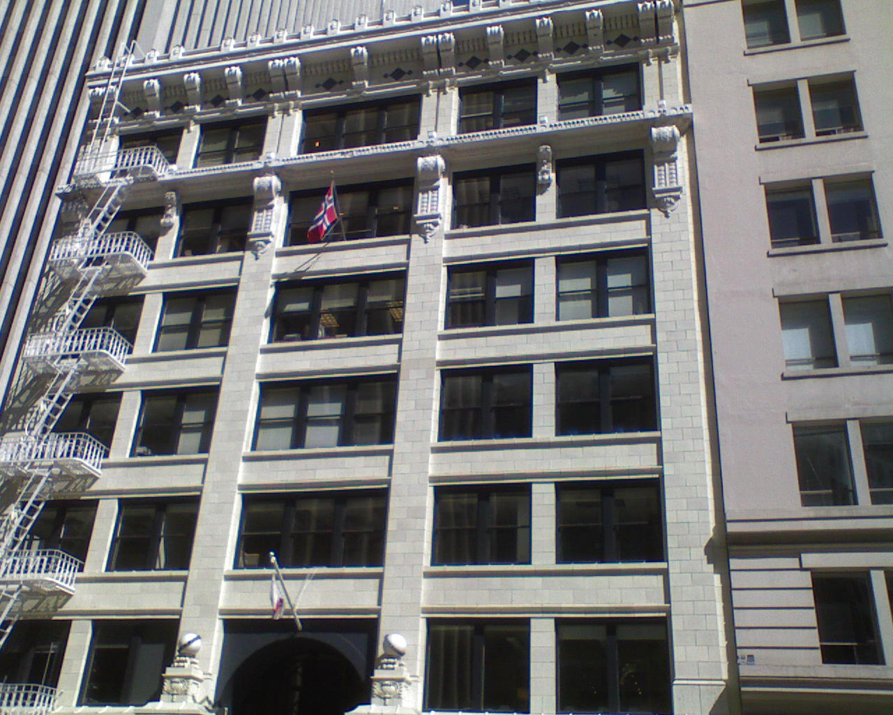 Norwegian Consulate-General in San Francisco